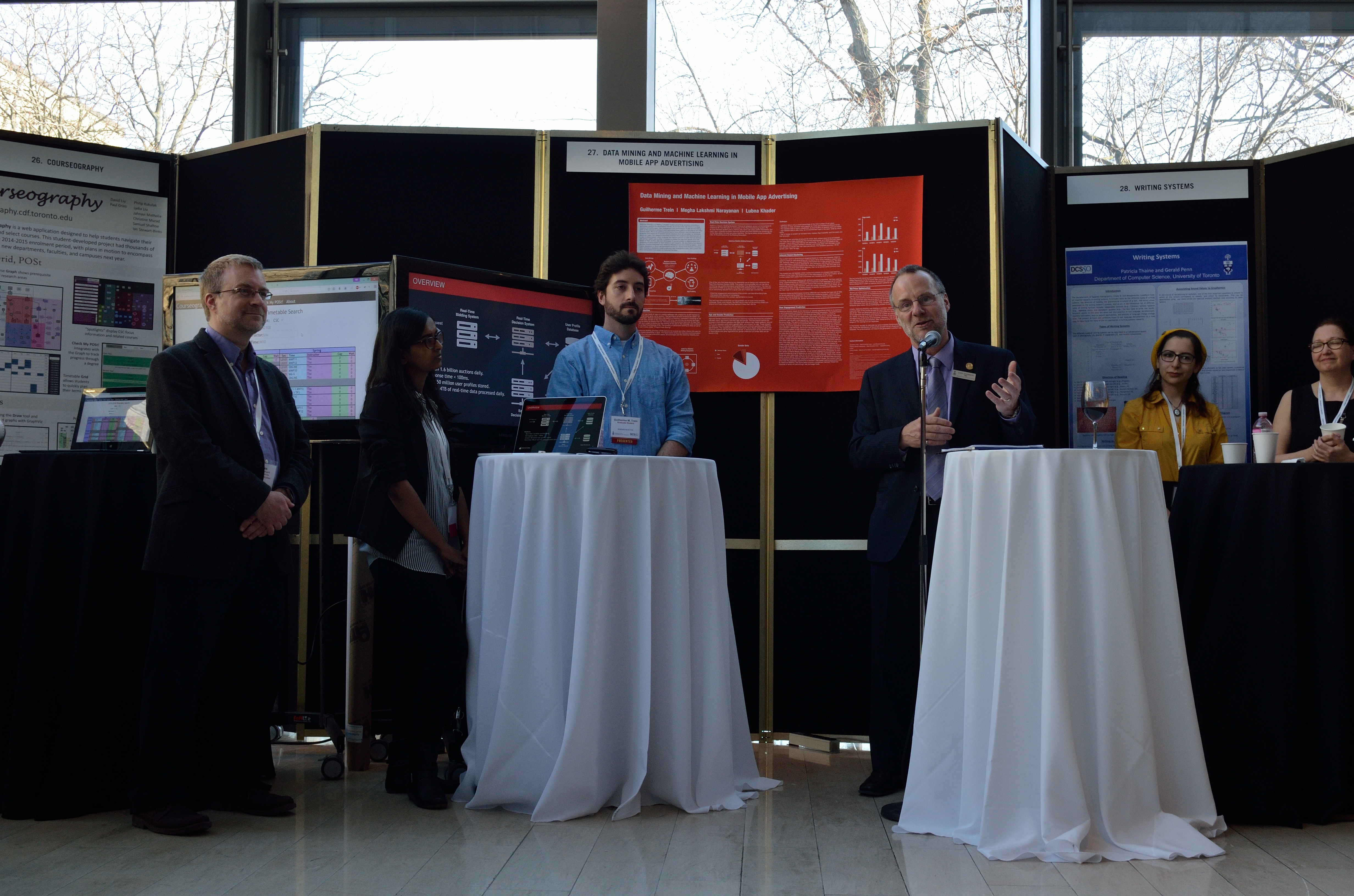 Sven Dickinson (Chair of the Department of Computer Science, University of Toronto)'s speech at DCS50 Anniversary Reception & Research in Action Showcase